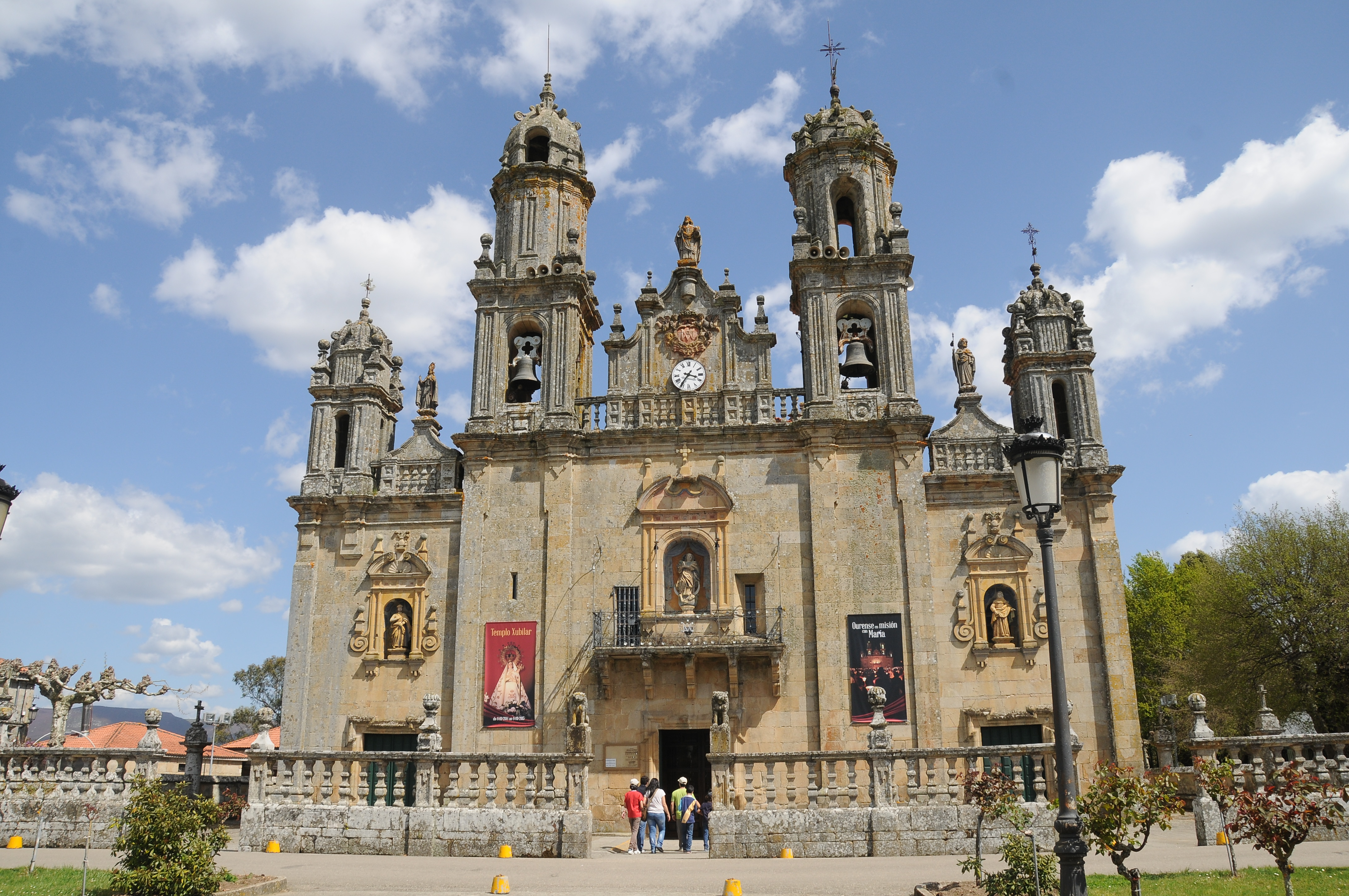 Santuario da Nosa Señora dos Milagres in Baños de Molgas, Galicia, Spain.